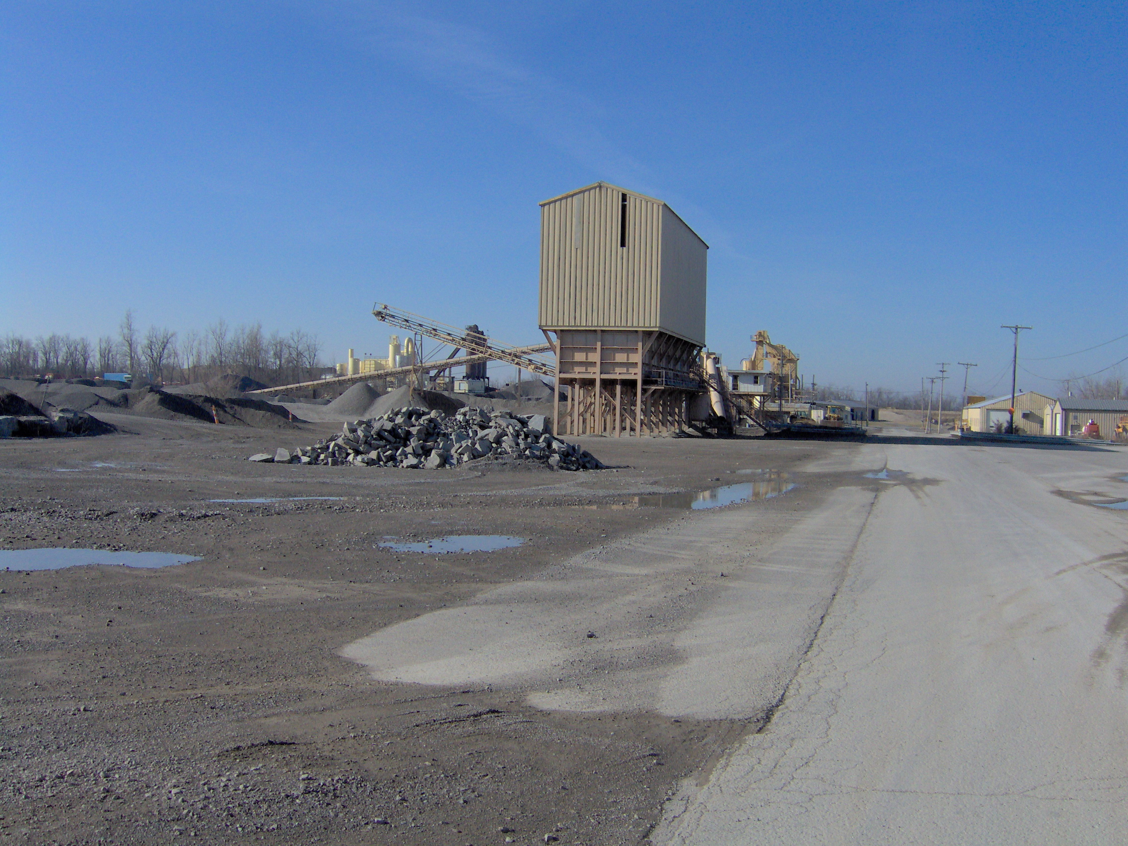 Shelly Company Quarry along County Road 105 in McArthur Township, Logan County, Ohio, United States.